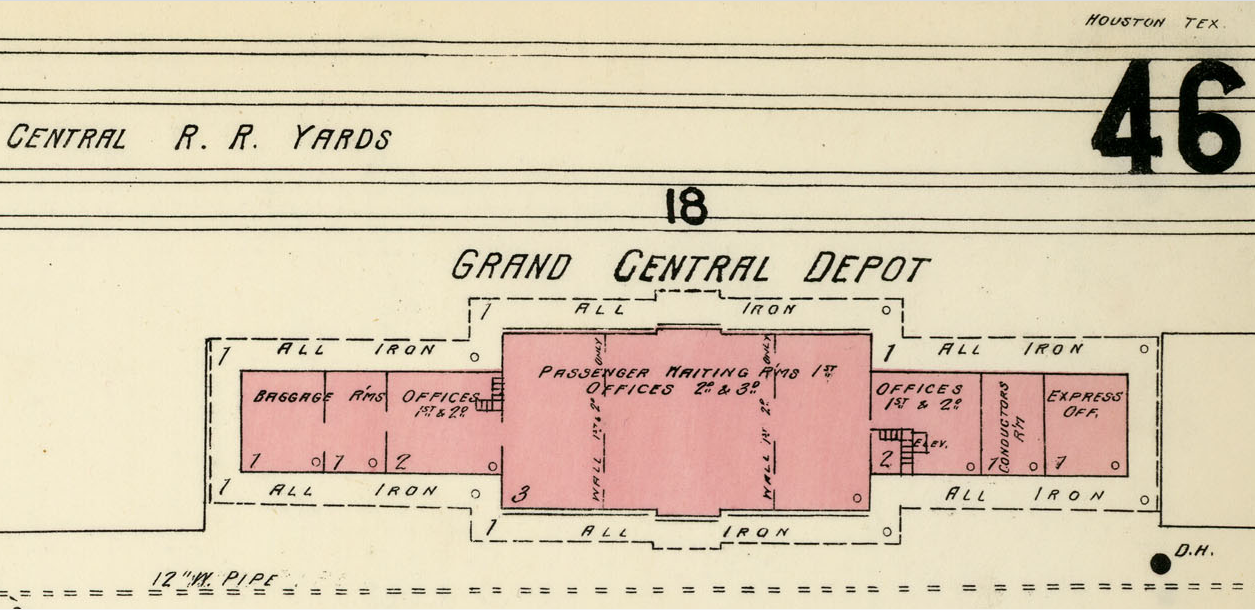 Image taken from Facet 46, 1896 Sanborn Fire Insurance Company, Houston map